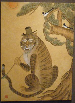 Joseon period Korean folk painting depicting a tiger smoking pipe. In folk tales it is common to begin the tale with "when tigers smoked pipes" (호랑이 담배 먹던 시절에).